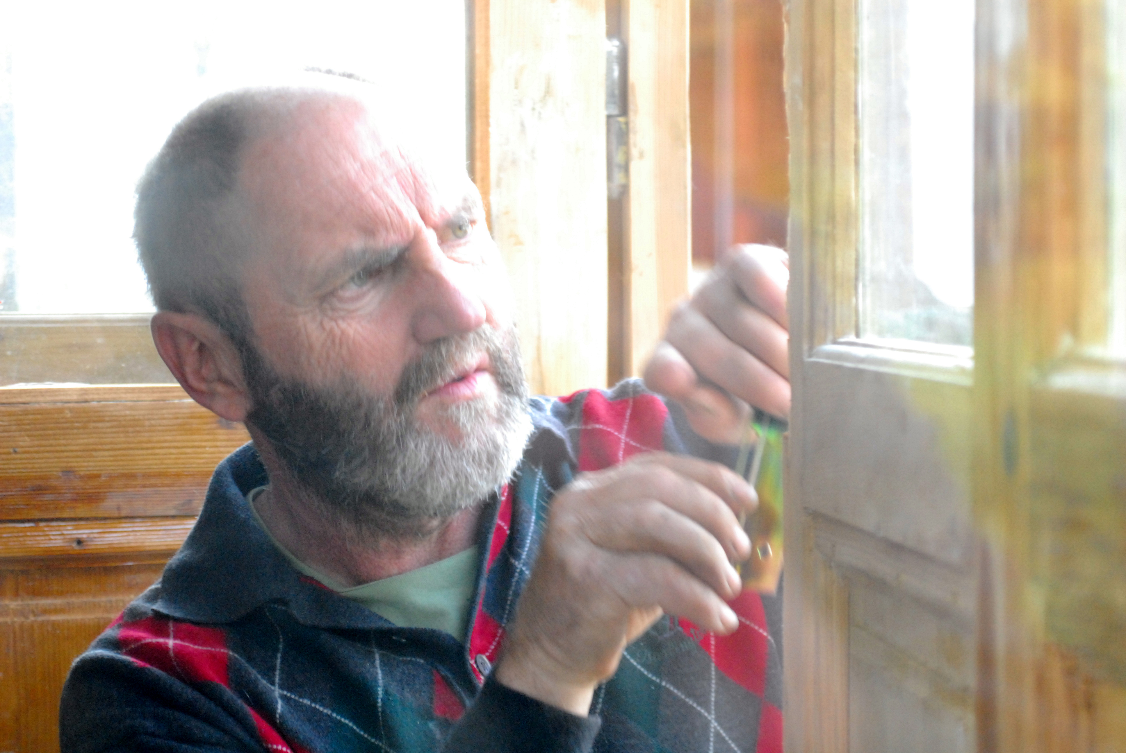 Carpenter at work on a vestibule in Poertschach on the Lake Woerth, Carinthia, Austria